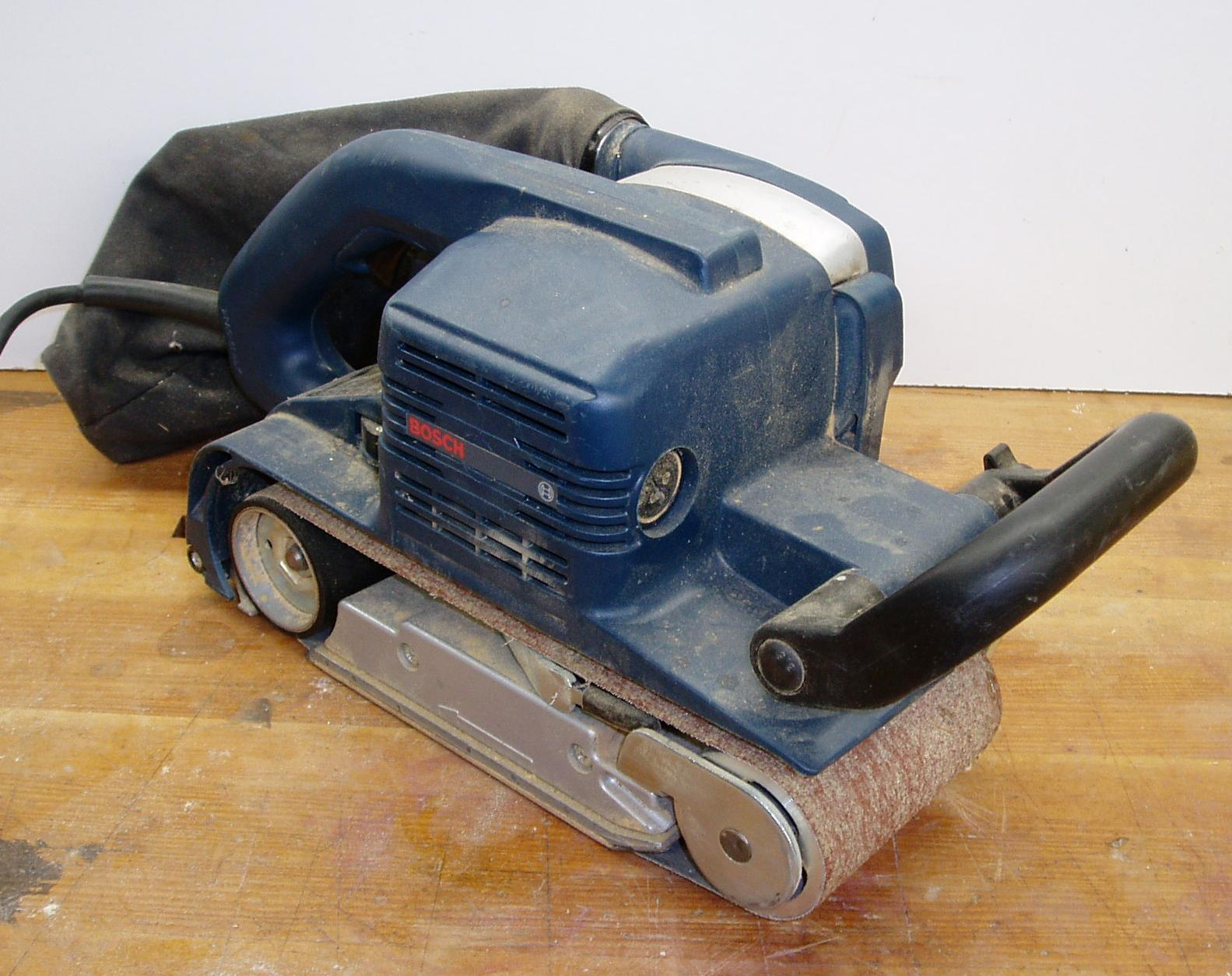 Picture of Bosch belt sander (Model 1274 DVS) taken 16 October 2005 by Luigi Zanasi (myself) on my workbench using a Olympus digital camera.